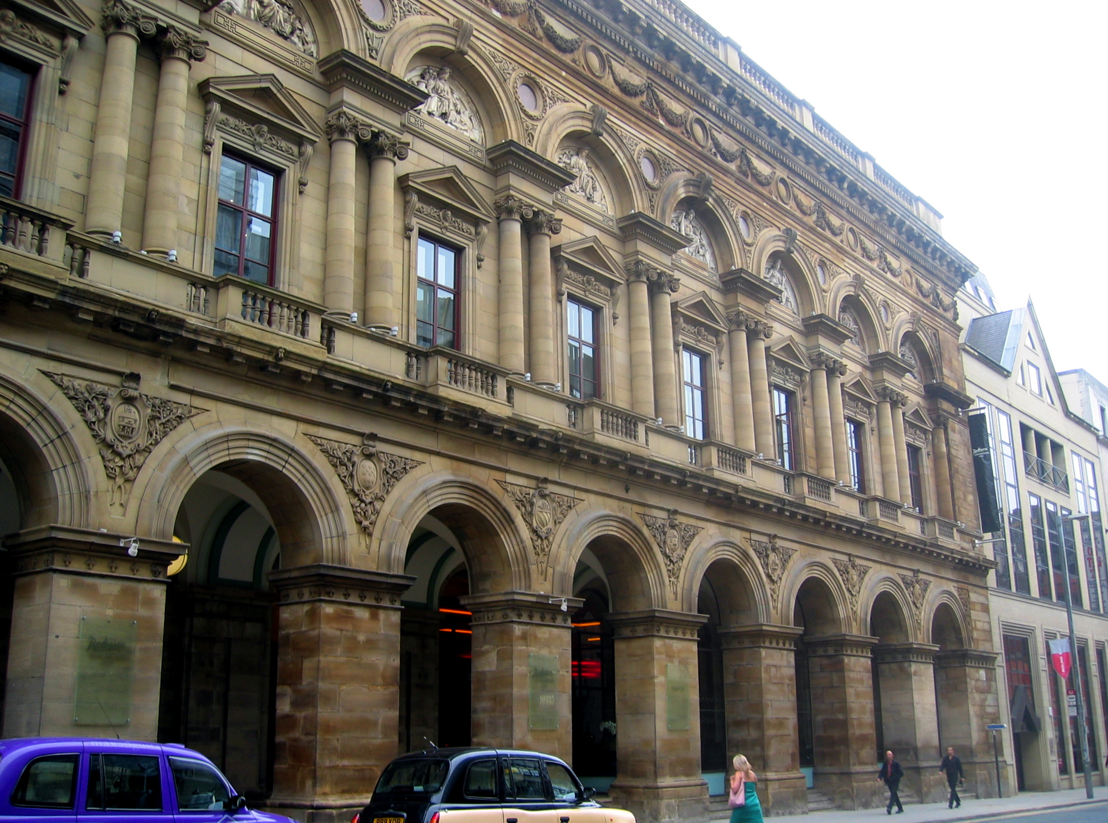 Free Trade Hall, Manchester, UK. Surviving facade.